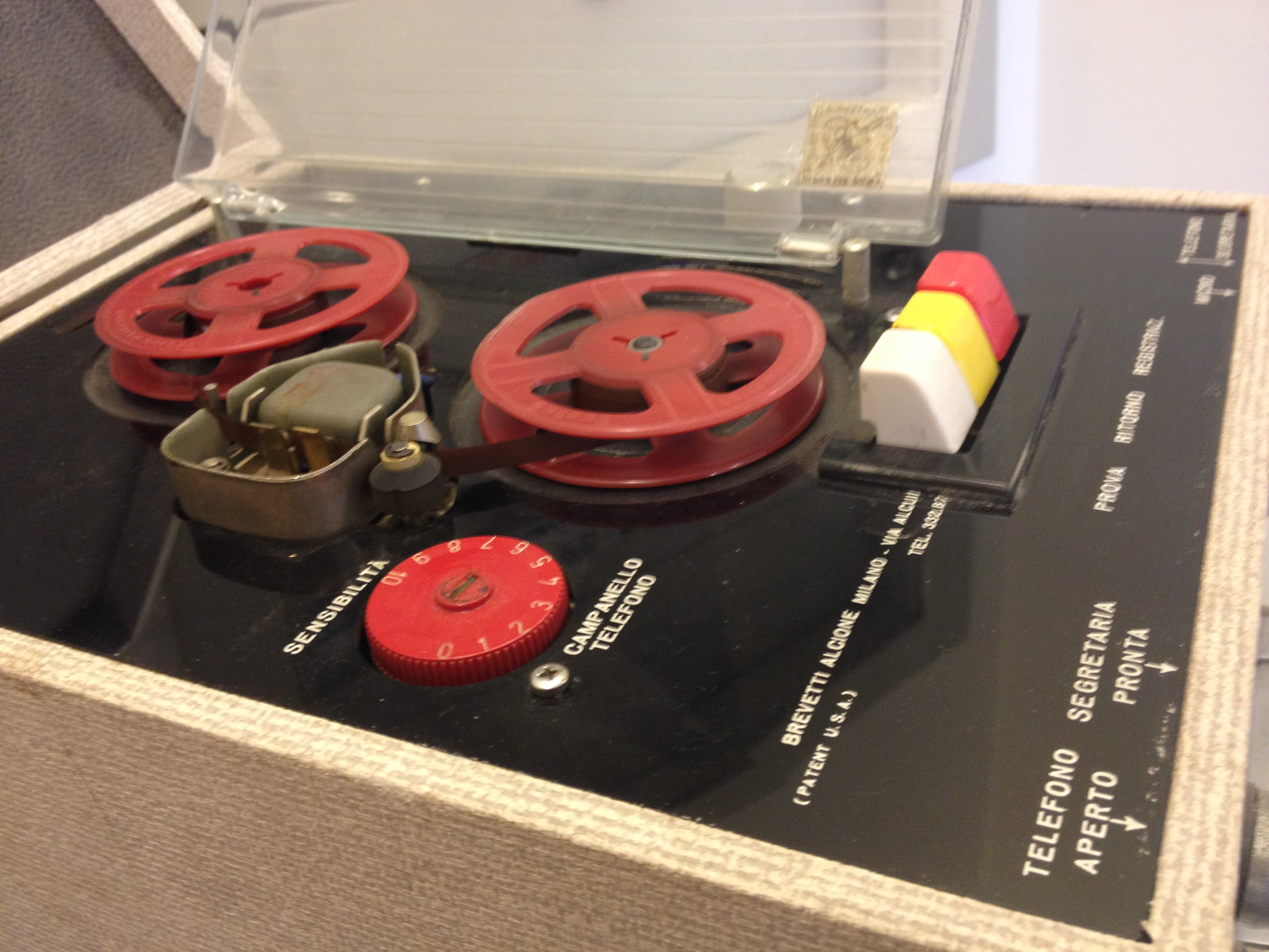 Segreteria Telefonica Brevetti Alcione Milano Arnaldo Piovesan